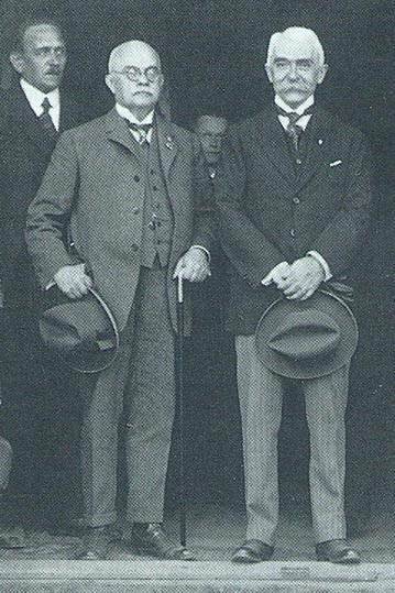 Pierre de Coubertin and Jiri Guth-Jarkovsky (left) at the Olympic Congress 1925 in Prague photography, adapted reproduction, no restrictions on use Copyright: free of charges